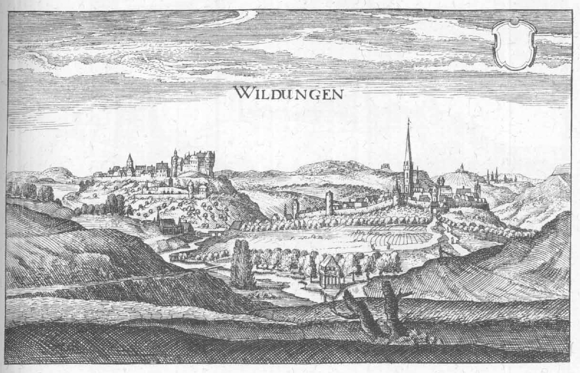 Depicted place: Bad Wildungen